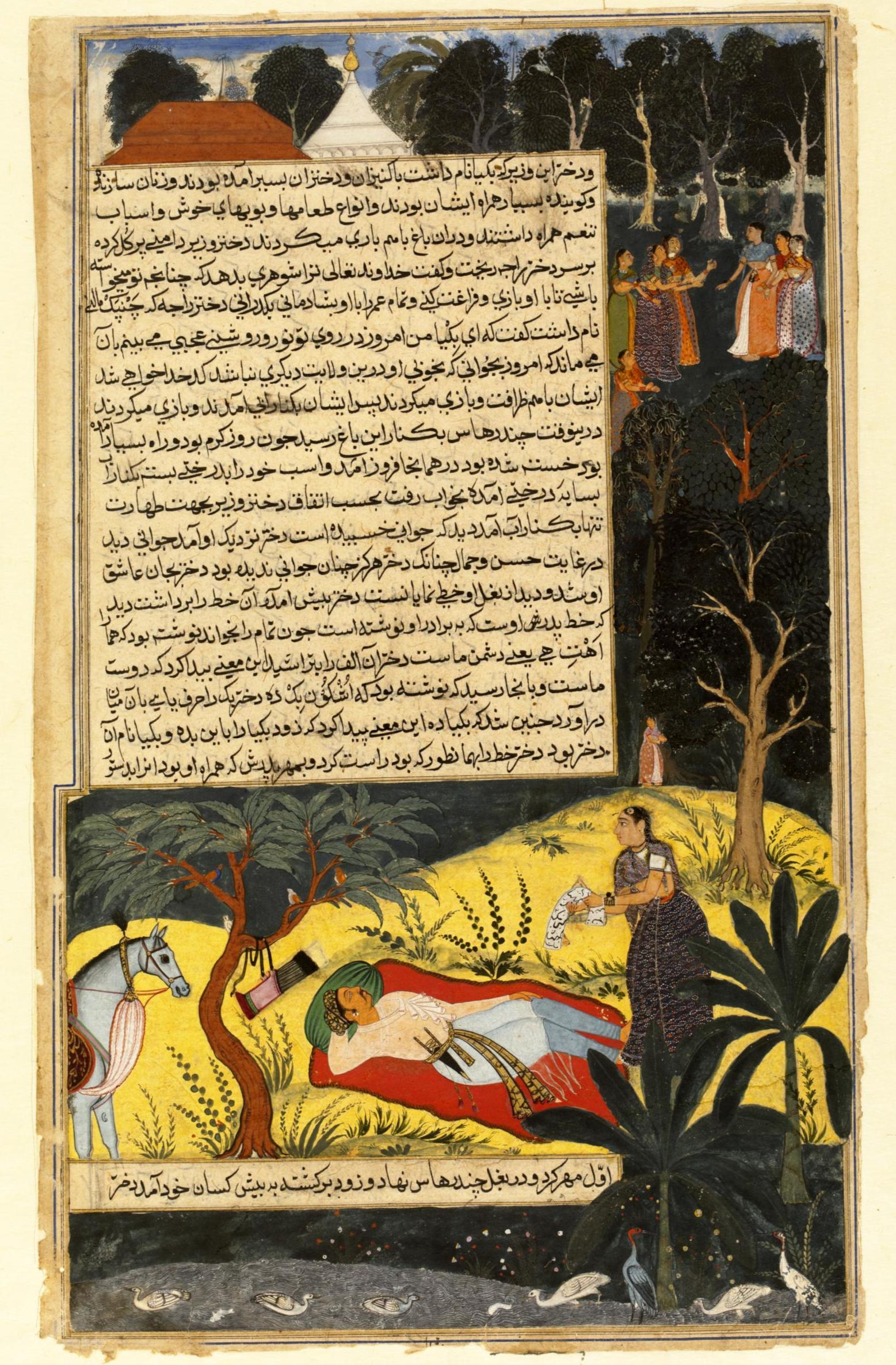 Aswamedhikaparwa Abdul rahim 1616-17